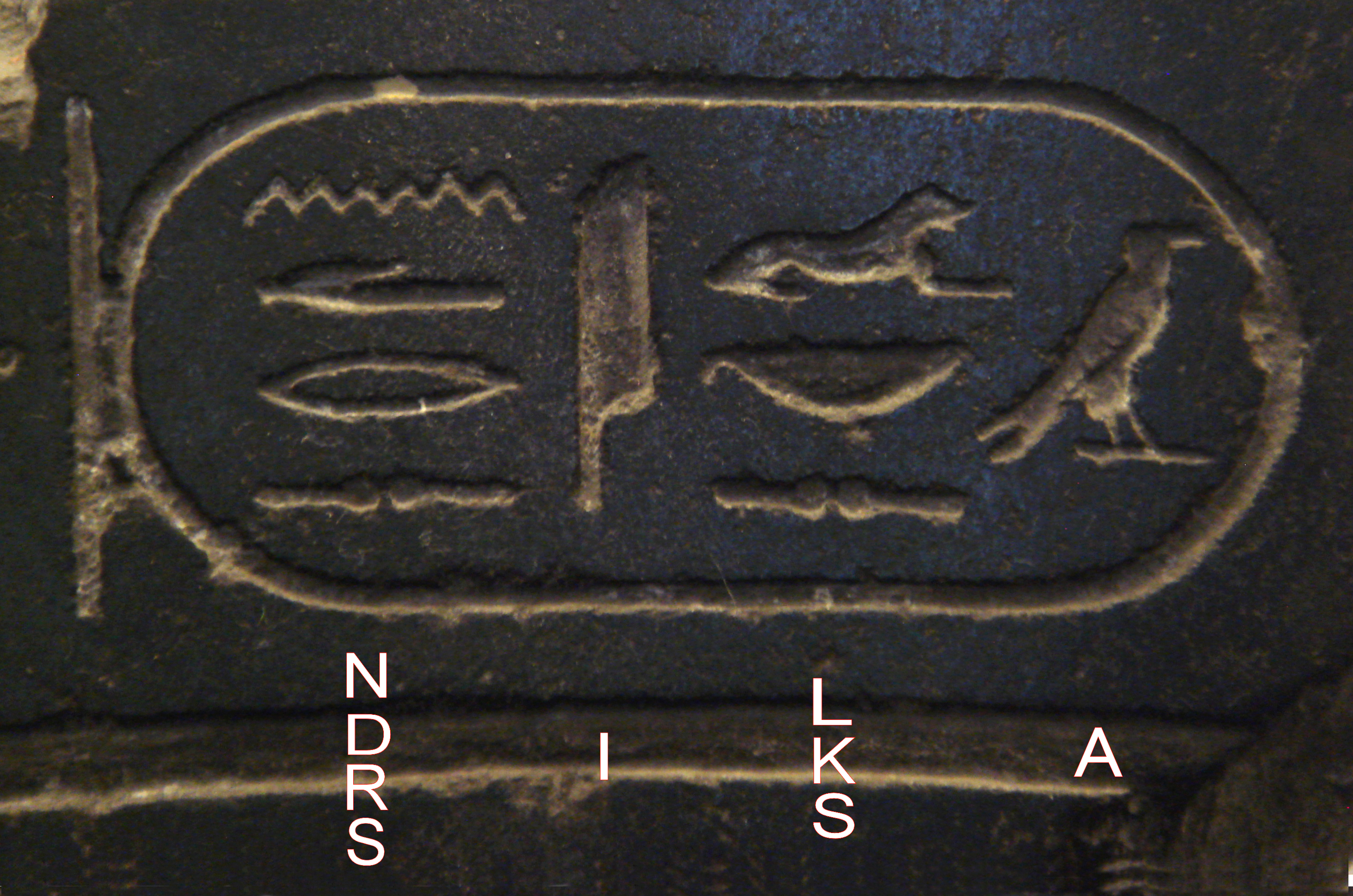 Name_of_Alexander_the_Great_in_Hieroglyphs_circa_330_BCE.